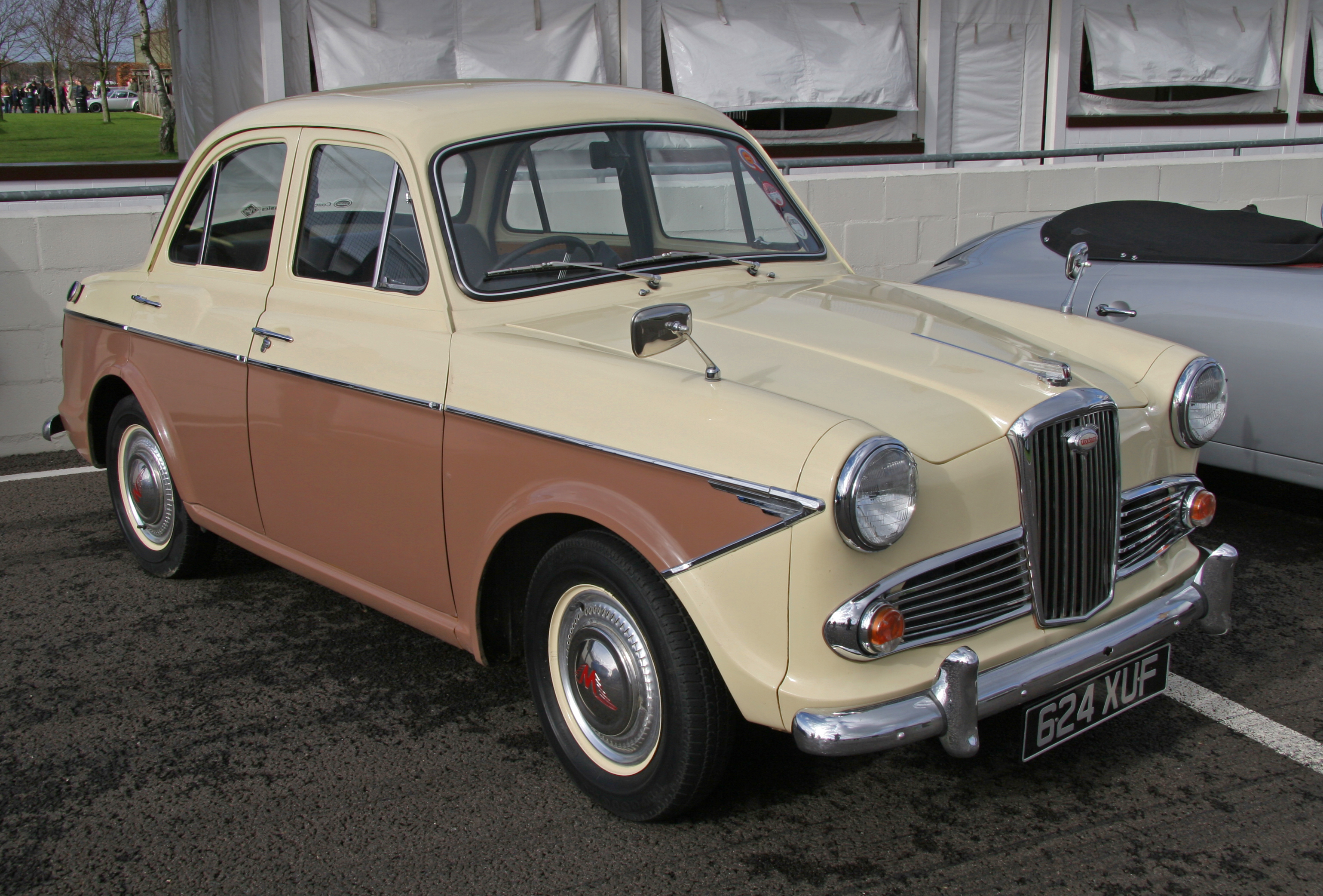 Wolsley 1500